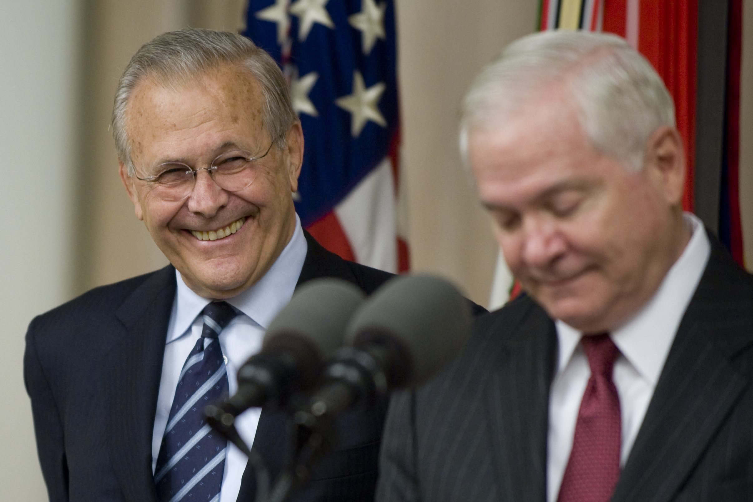 Former U.S. Secretary of Defense Donald H. Rumsfeld, left, laughs as Secretary of Defense Robert M. Gates addresses the audience during Rumsfeld's portrait unveiling ceremony at the Pentagon in Arlington, Va., June 25, 2010. (DoD photo by Cherie Cullen/Released)